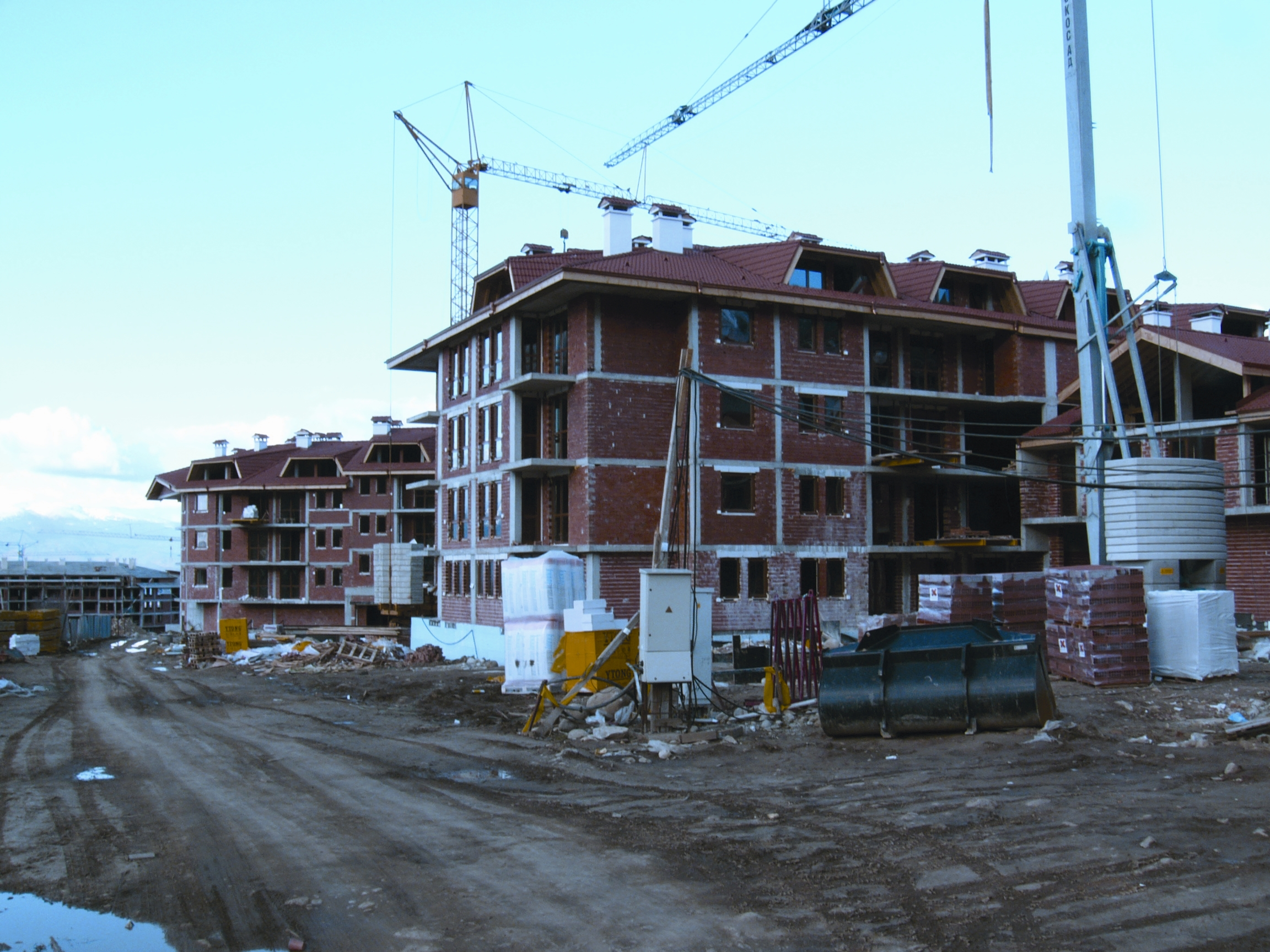 Construction work stops in Bansko with many foreign property investors left stranded. Many unfinished developments are in serious financial difficulties. The once popular ski property destination is now a ghost town with fewer tourists vacationing there.